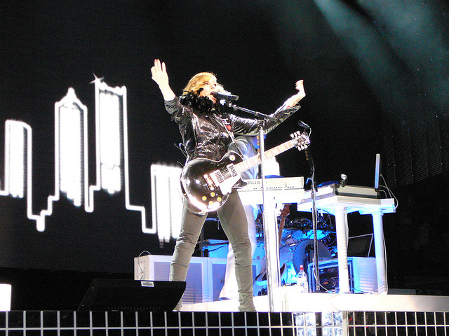 Photo Taken at the Concert